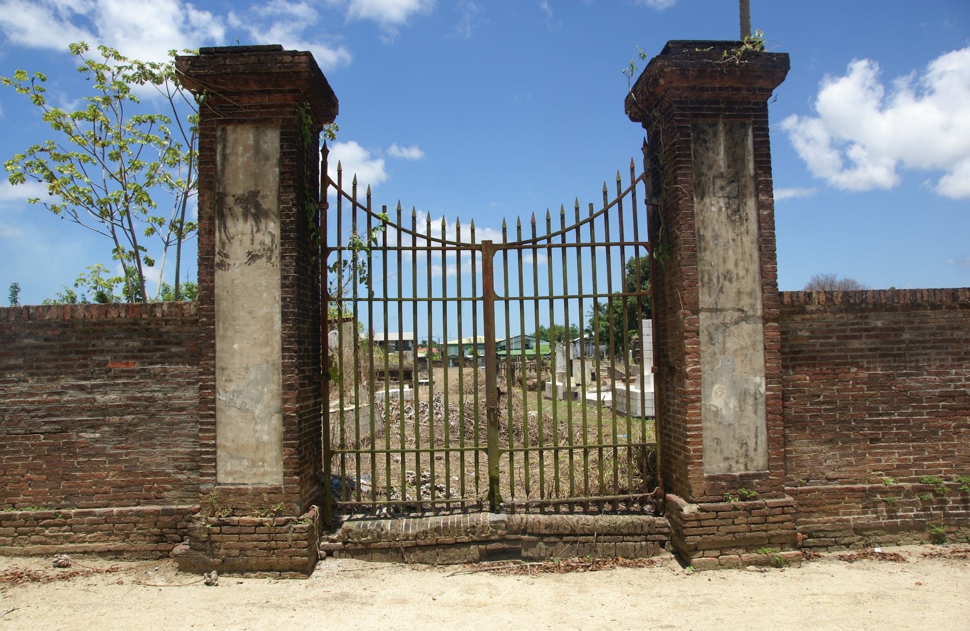 Nieuwe Oranjetuin, Dr. J.F. Nassystraat 8, Paramaribo, Surinam. Gate Dr. J.F. Nassystraat.